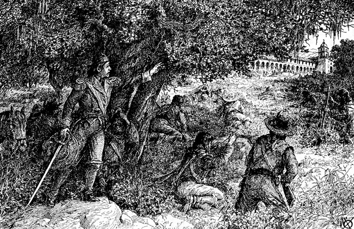 This painting by 20th century American artist Alexander Harmer depicts Mexican soldiers advancing towards La Purisima Mission, under fire by Chumash forces.